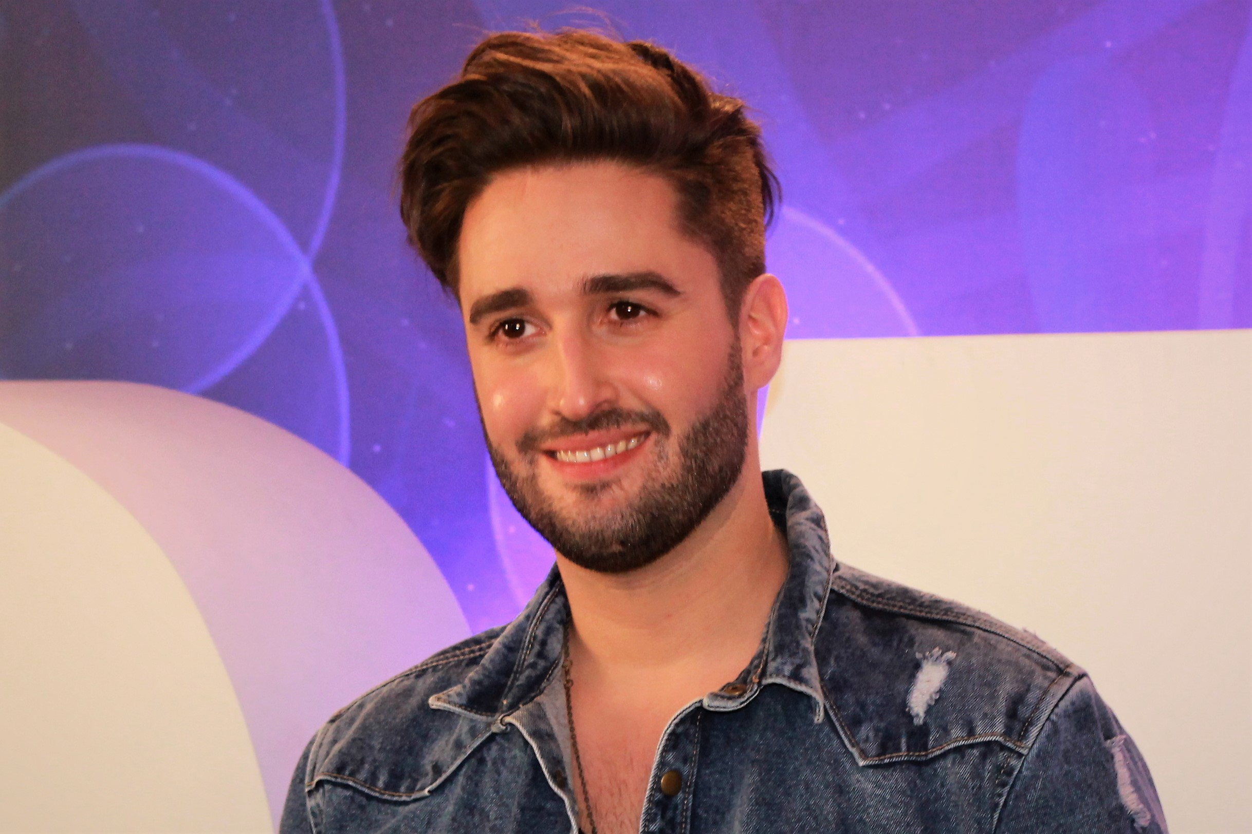 Viktor Király, finalist of A Dal 2018